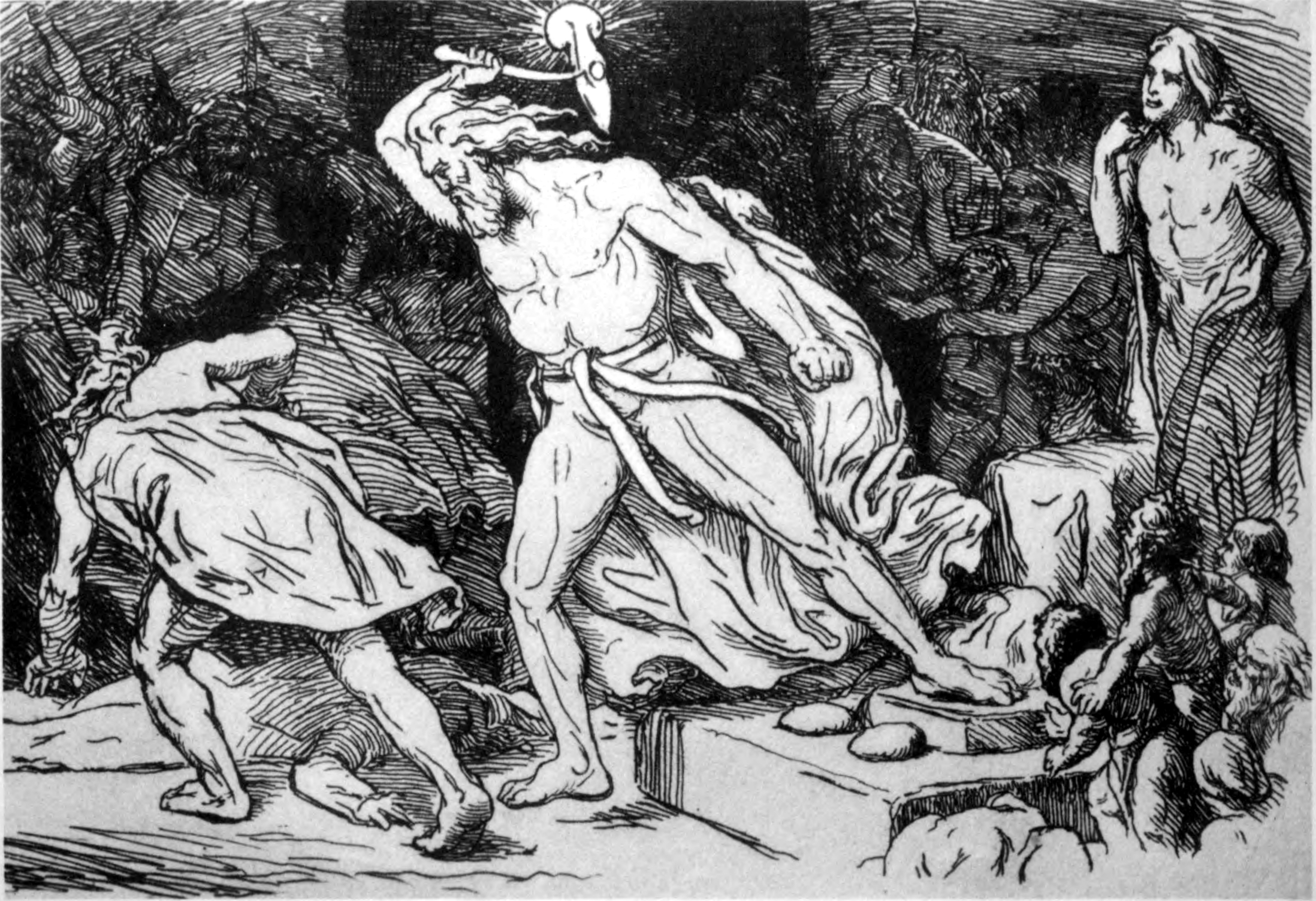 Thor Destroys the Giant Thrym. At the end of Þrymskviða, Þórr gets his hammer back and uses it to kill the giants.